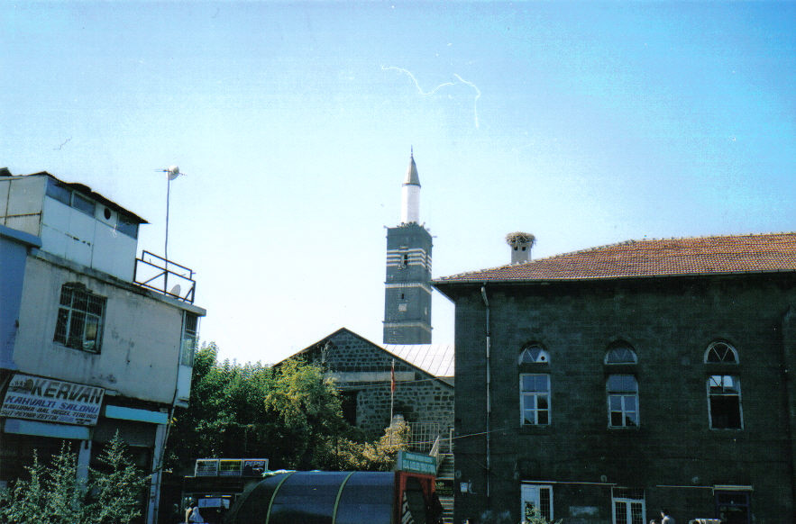 Diyarbakir's 12th Century Ulu Cami (Great Mosque). (C) Gerry Lynch, 2003.